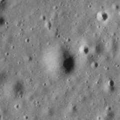 Rhysling crater, Hadley–Apennine region, on the moon. Sun elevation 14 deg., spacecraft altitude 101 km.